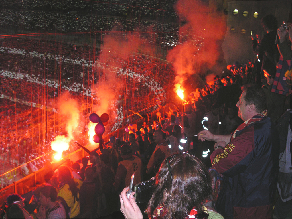 Champions League semi final Milan - Barcelona, April 2006.